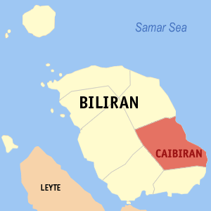 Map of Biliran showing the location of Caibiran